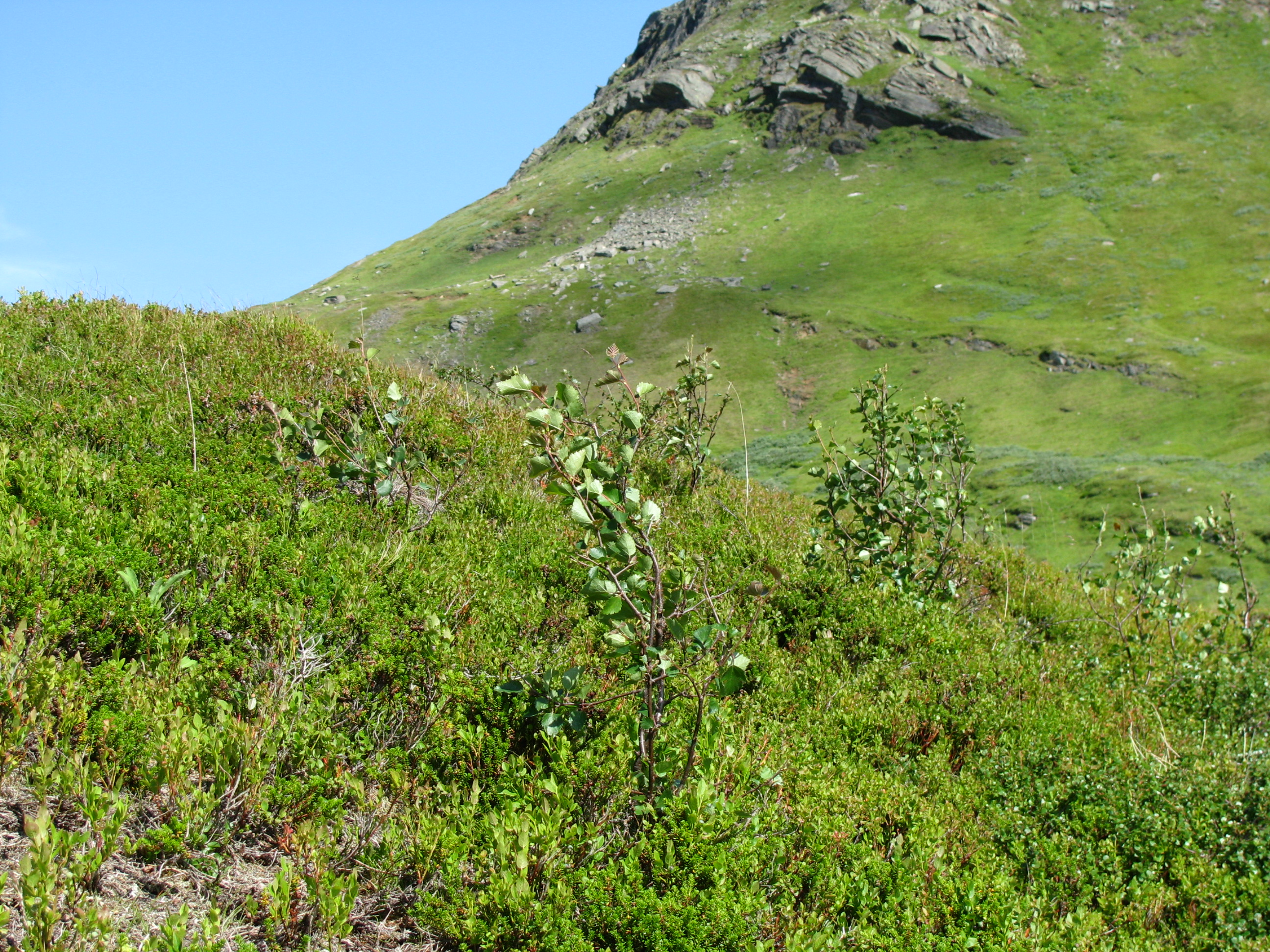 A visible sign of global warming? Some 50 - 100 m above the treeline in the mountains in Nordland county in North Norway, young downy birch (Betula pubescens) trees have gained a foothold. There were no signs of birch trees growing here earlier (no standing trees, no sign of dead trees).